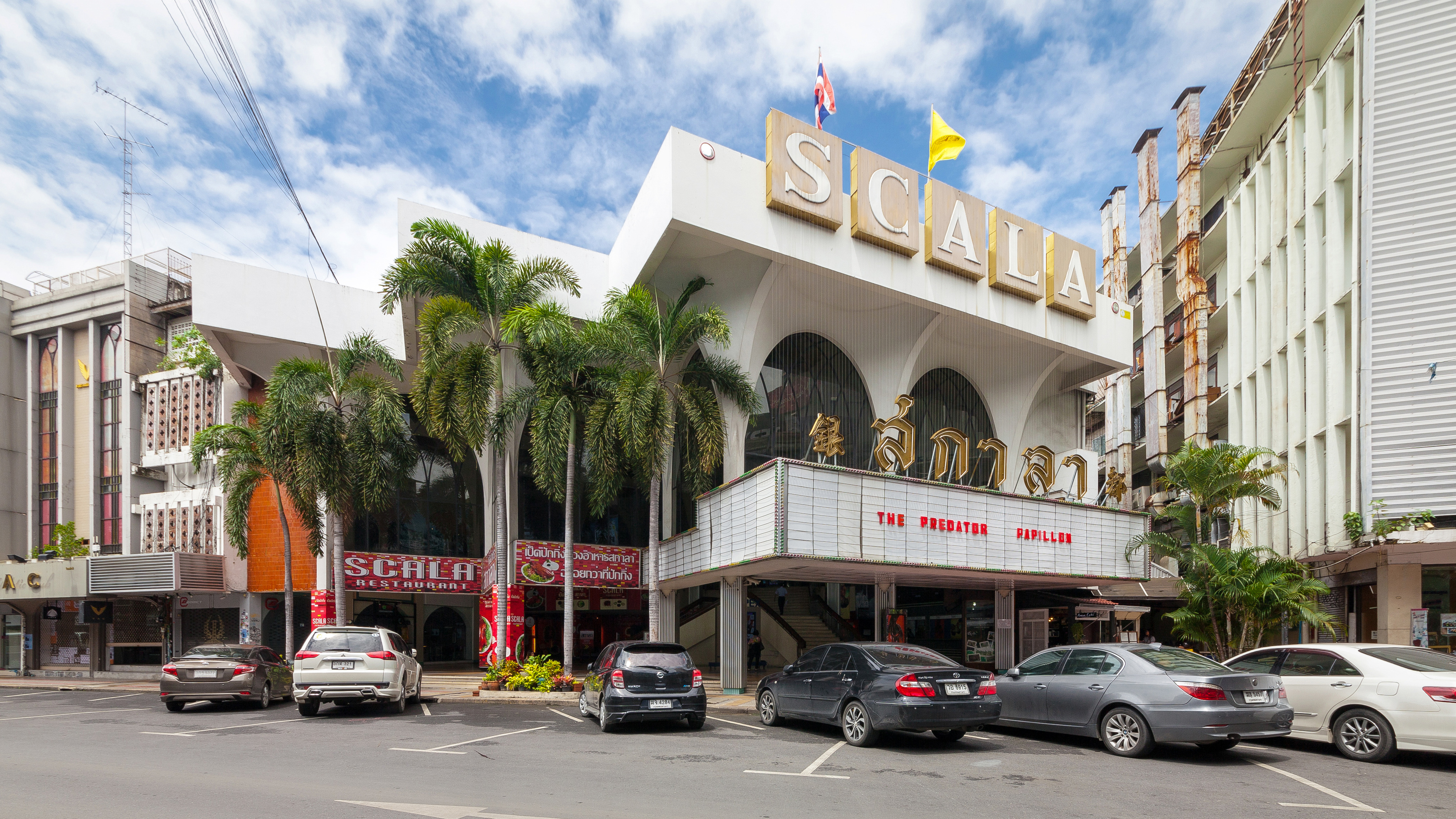 The Scala is a historic cinema in Bangkok, Thailand. It is located in the Siam Square shopping area, and forms part of the Apex group of cinemas. Opened in 1969, the Scala is the last remaining operational standalone single-screen cinema in the country, and today continues to offer a retro filmgoing experience.